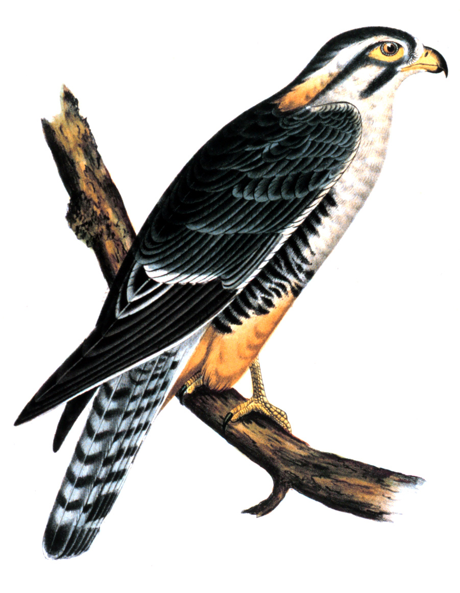 Aplomado Falcon, adult, Falco femoralis, hand-colored lithograph